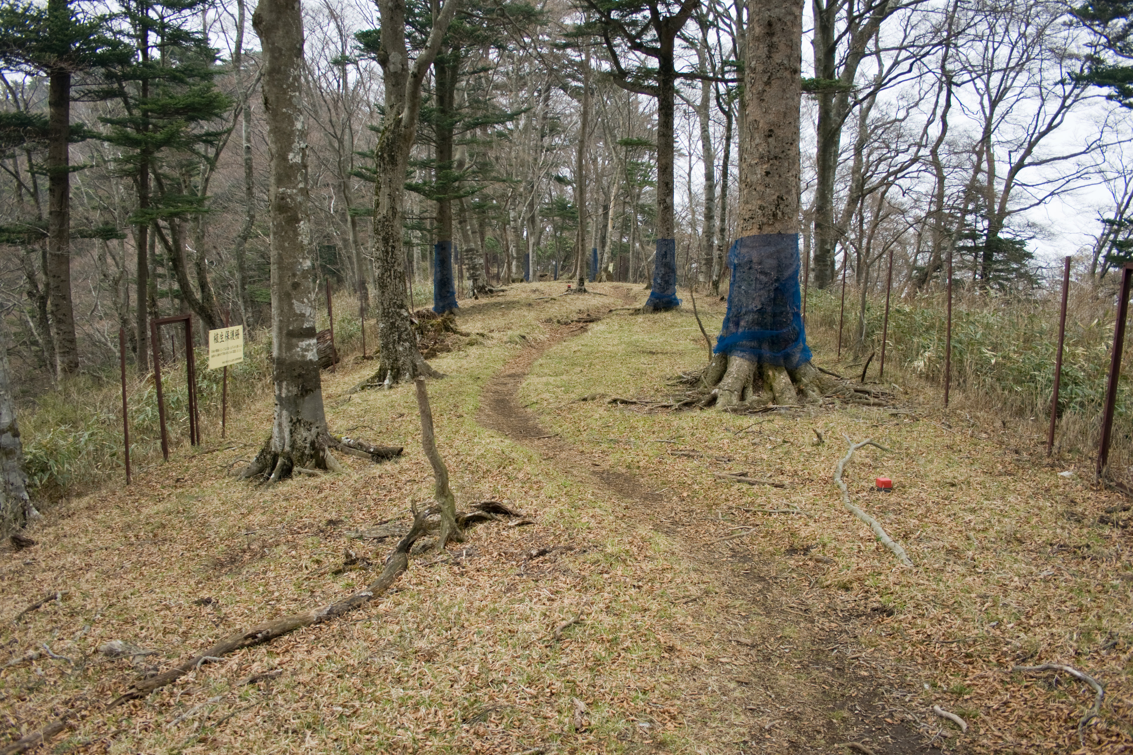 Mt.Setozawanoatama at Mts.Tanzawa, Kanagawa, Japan.